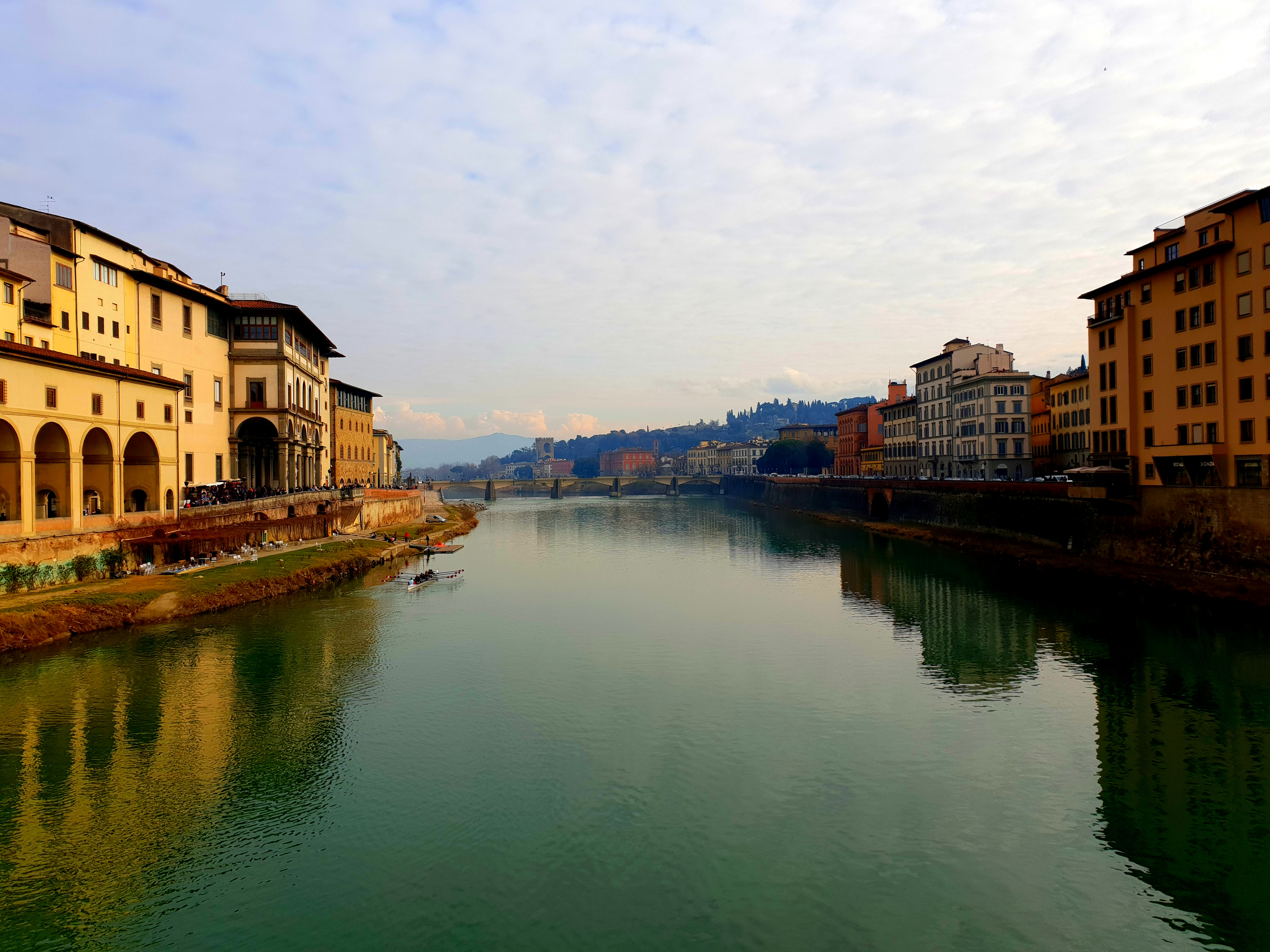 Firenze